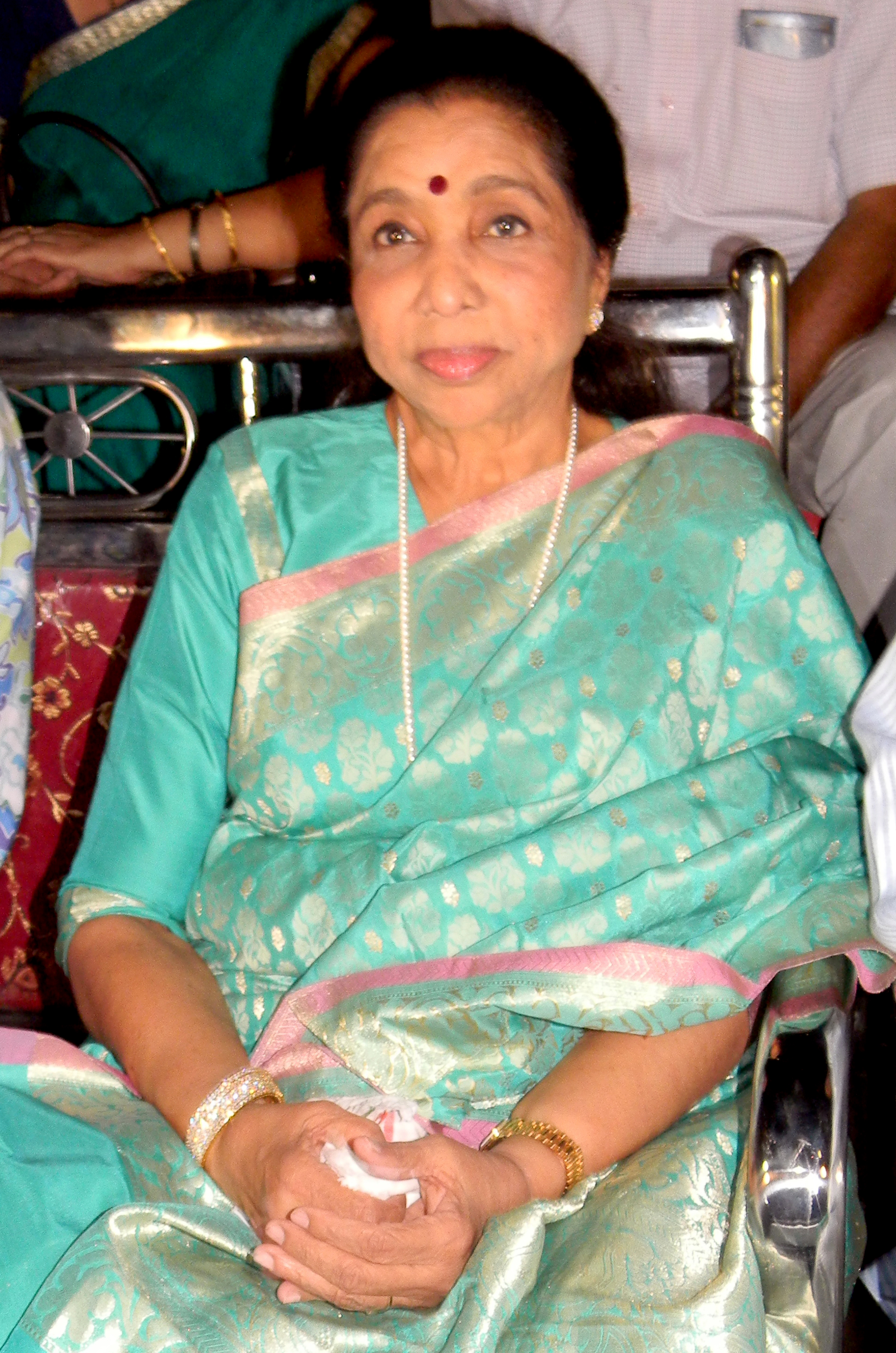 Asha Bhosle at Utkal Mandap, Bhubaneswar, Odisha This media file is uploaded with Odia loves Wikipedia